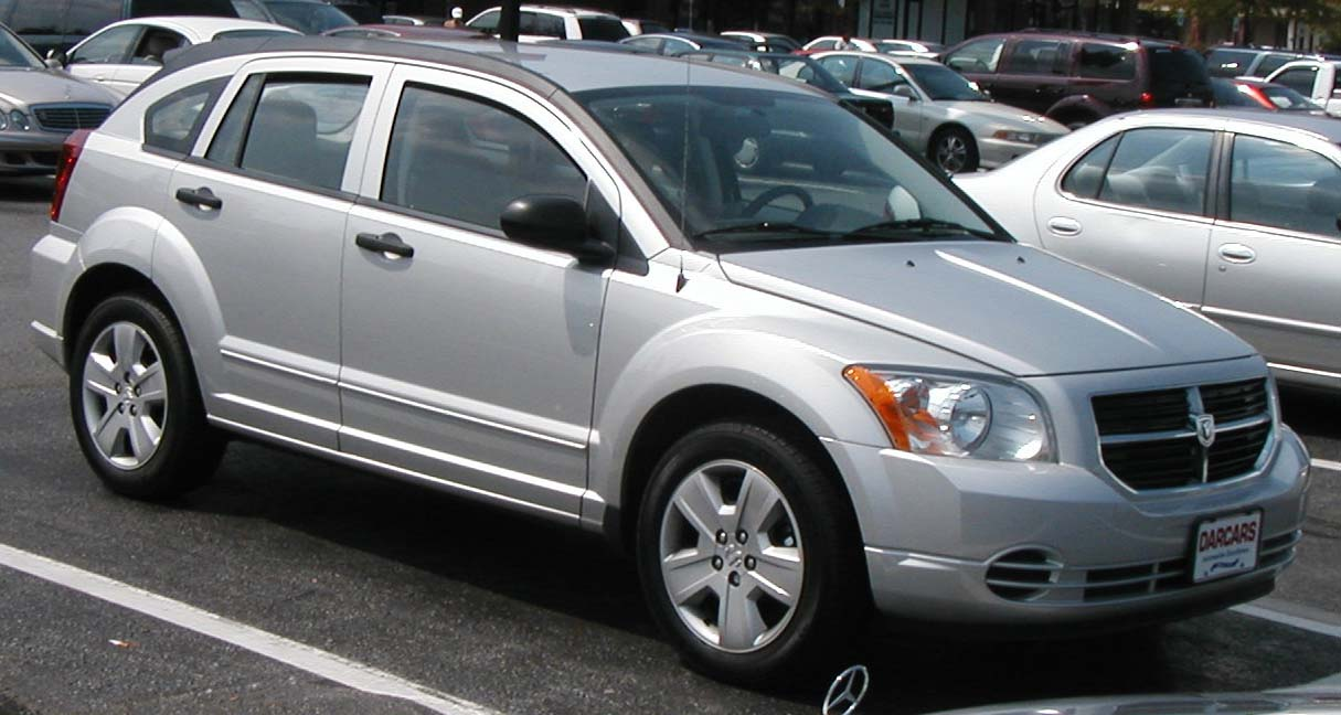 2007 Dodge Caliber photographed in USA.